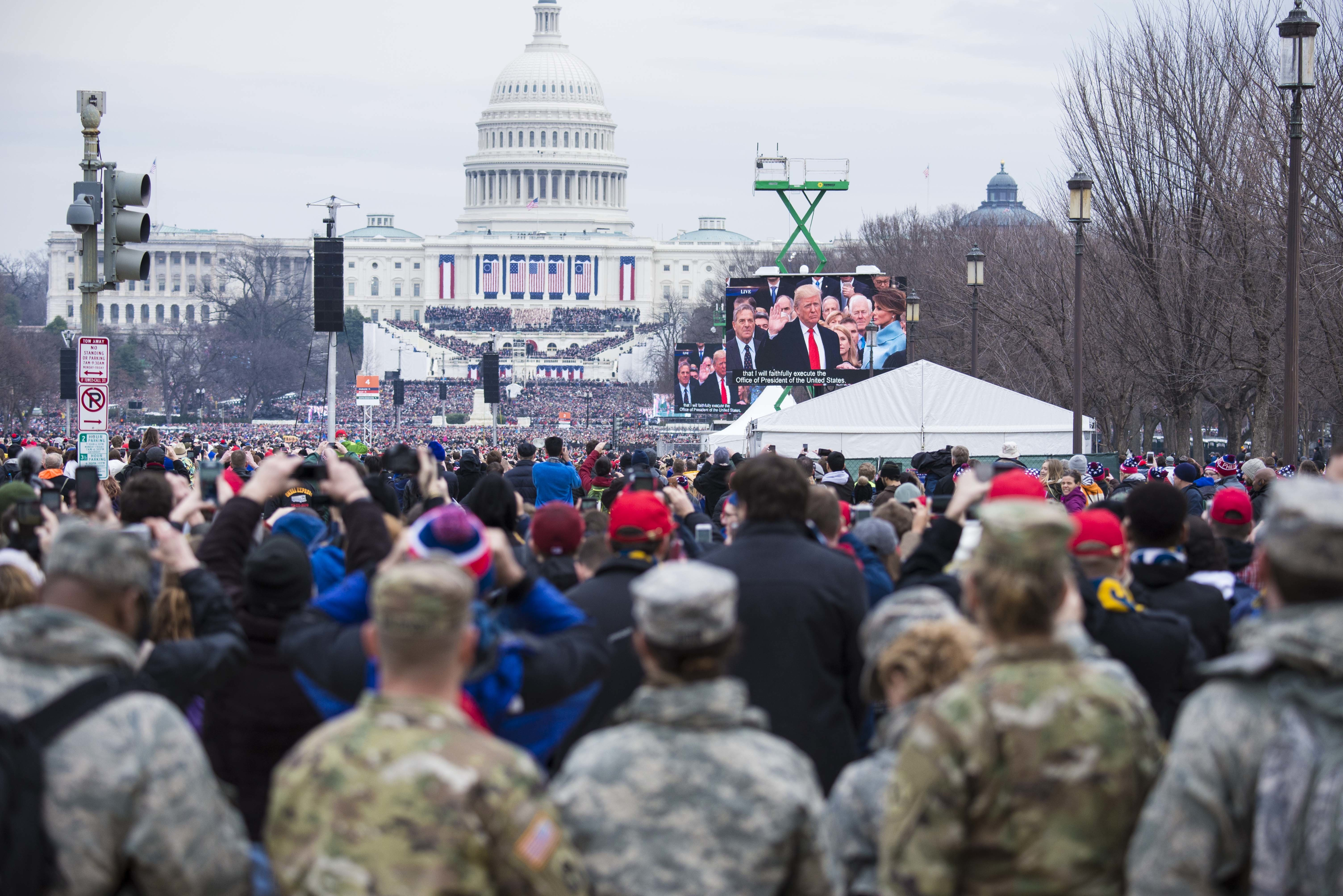 58th Presidential Inauguration - Soldiers and Airmen from the Florida National Guard look on as President Donald Trump takes the oath of office during the 2017 Presidential Inauguration. Florida sent approximately 340 Soldiers to provide support to the U.S. Park Police during the event. Photo by Ching Oettel